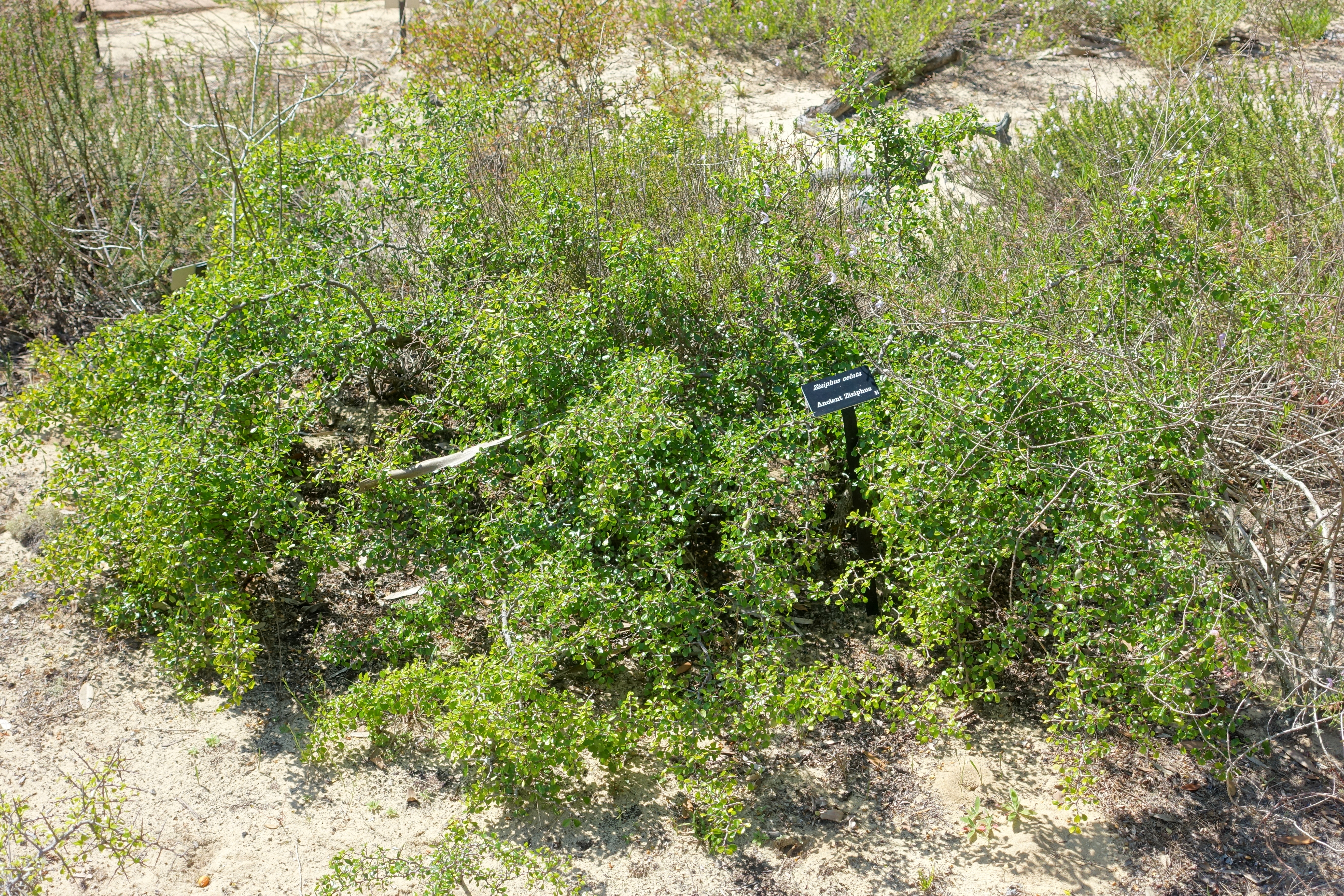 Botanical specimen in Bok Tower Gardens - Florida, USA.